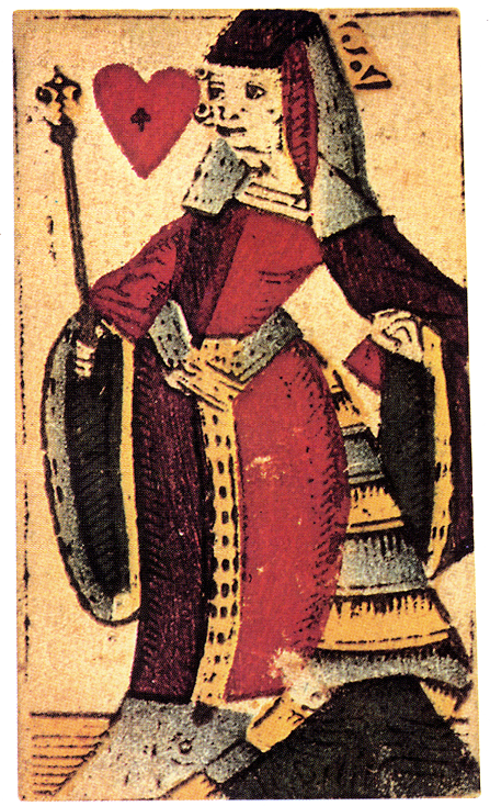 the queen of hearts of a Claude Valentin paying cards deck, 1650-1675.